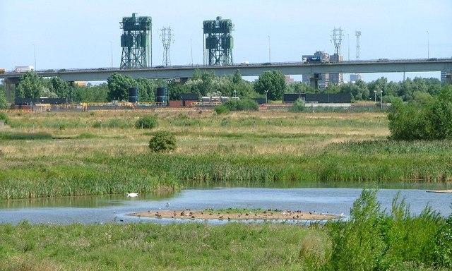 Portrack Marsh Nature Reserve This is one of several ponds within this nature reserve. In the distance is the A19 flyover and behind that the twin towers of Newport Bridge.